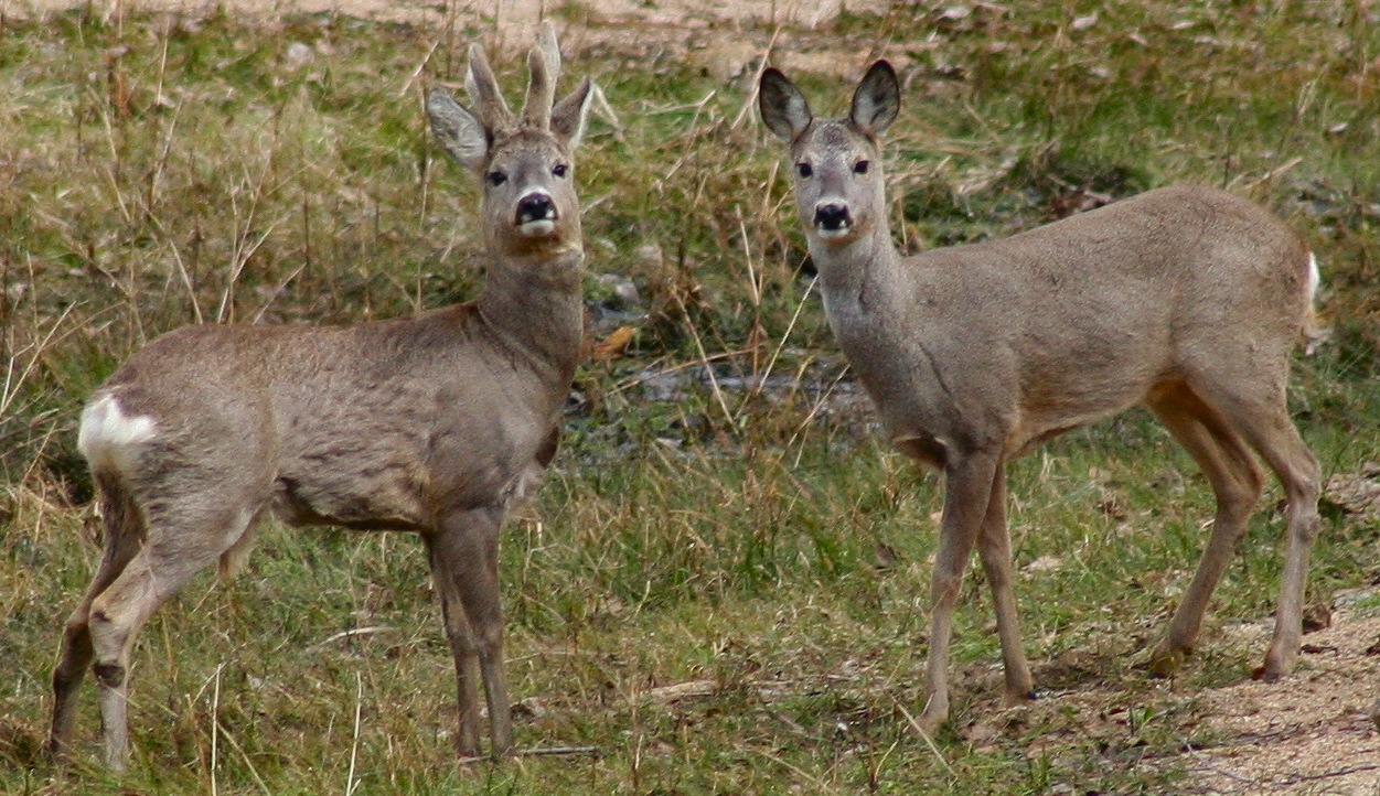 Capreolus capreolus male and female. Sarna, Roe Deer. This image is an edit of Image:Capreolus capreolus Jojo.jpg. The two deer have been brought closer together and background cropped.